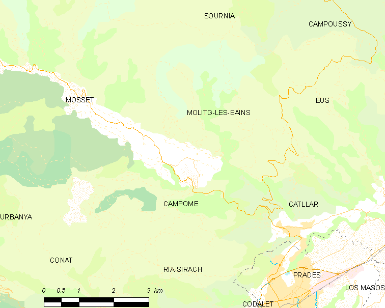 Map of French municipality